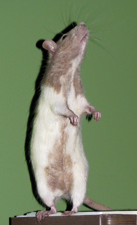 Beige Hooded Down-Under Rat, bred and owned by A. di Gangi and originally posted to